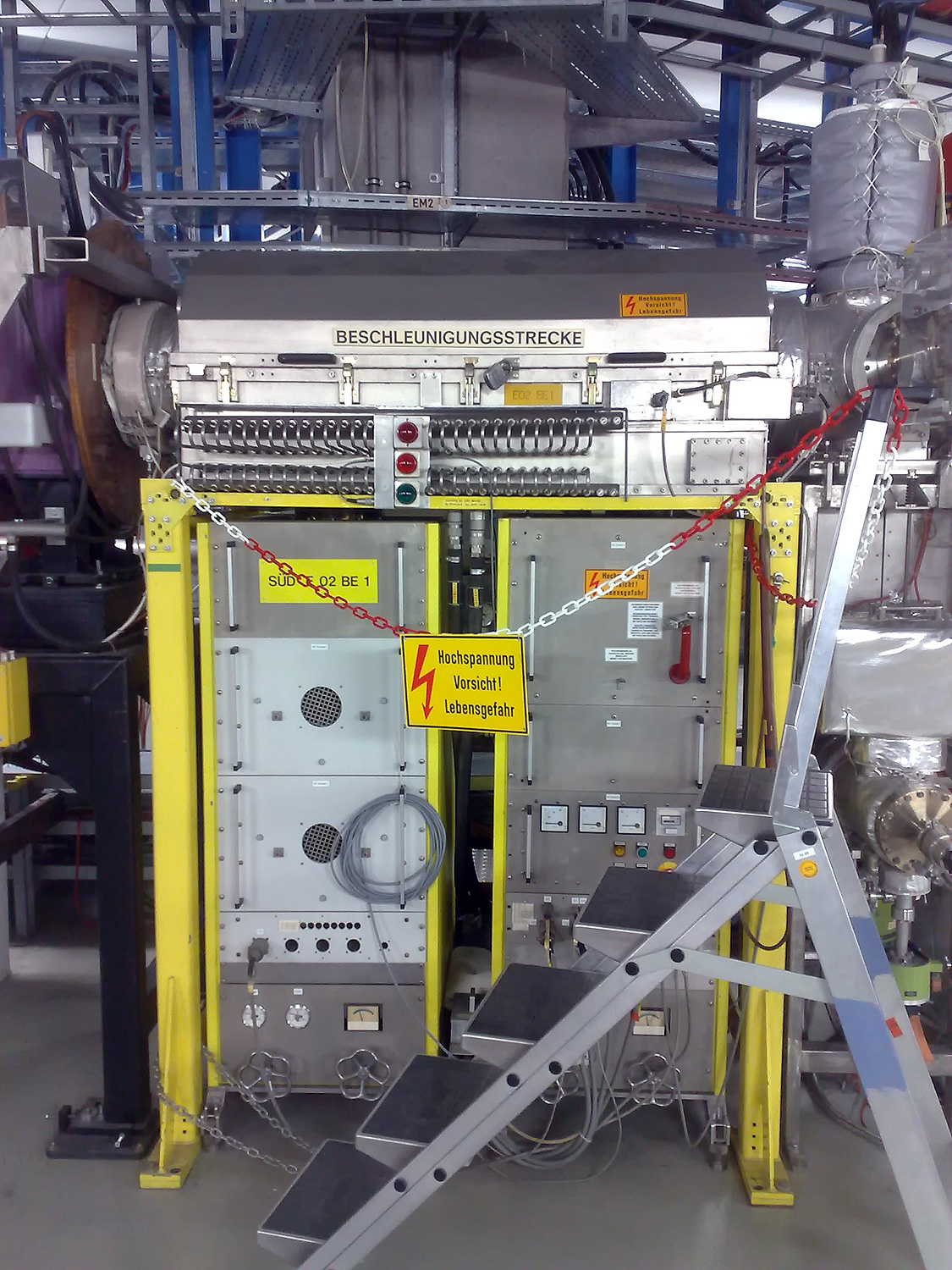 acceleration section of ESR